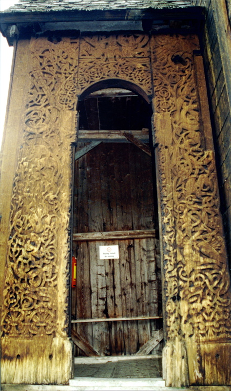 Lomen Stave Church